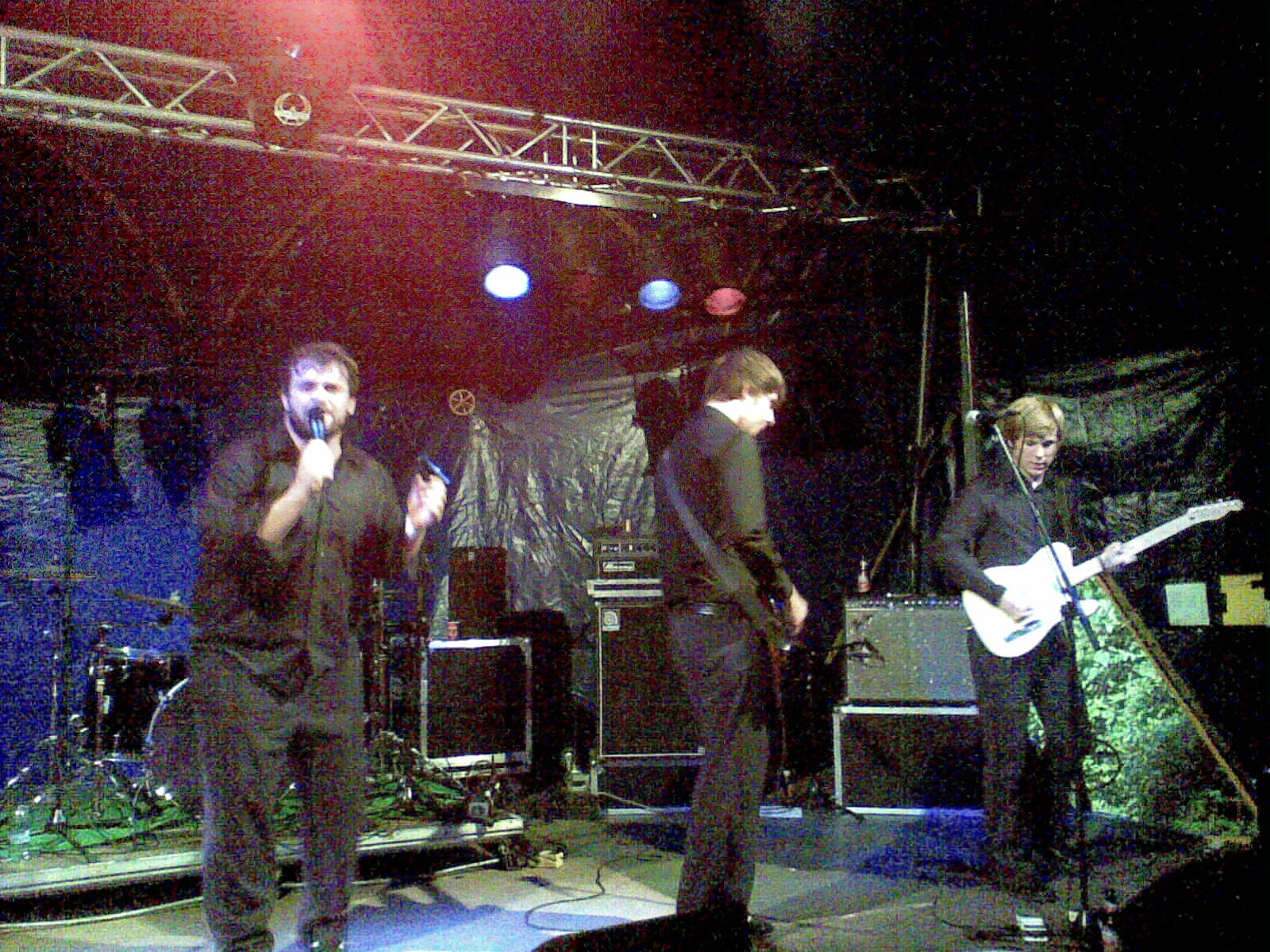 The Audience performing live in Nijmegen